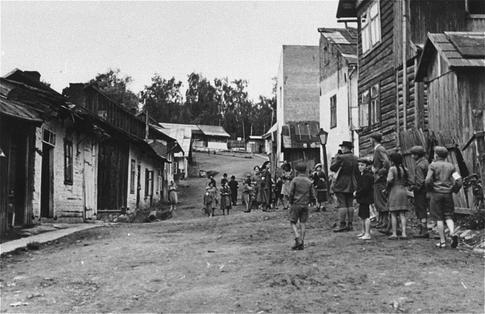 Most are children :(